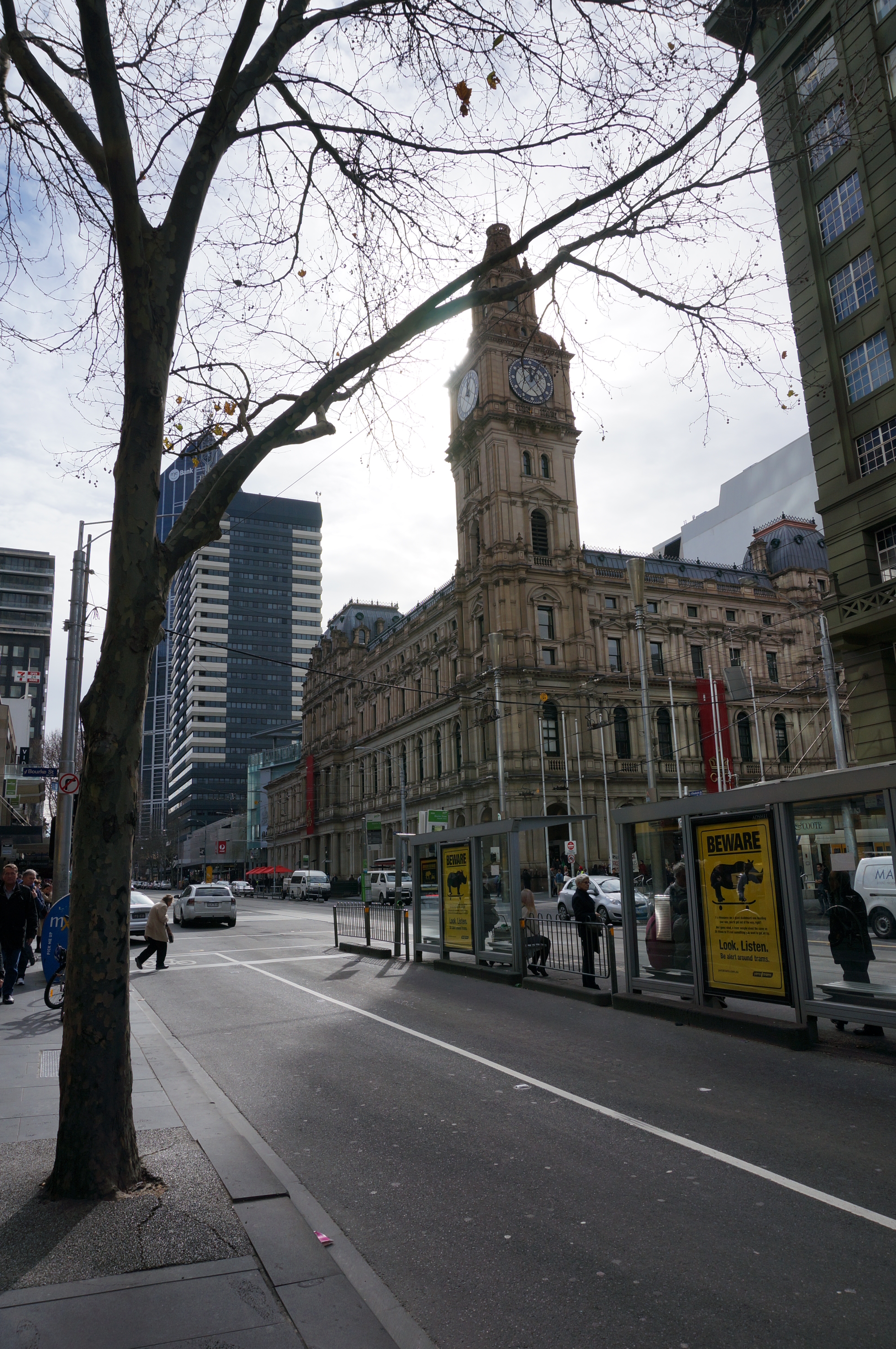 GPO, Melbourne